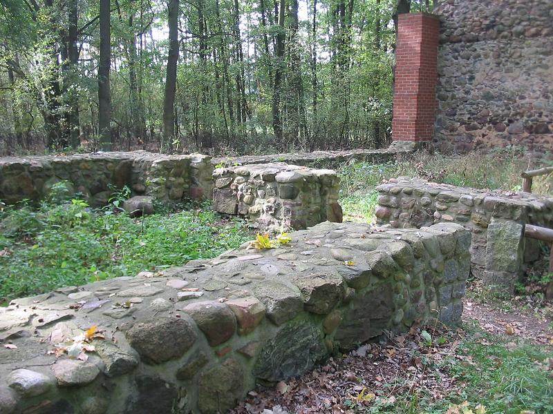 Ruin of the stonechurch in the abandoned village Dangelsdorf, situated in the forest „Nonnenheide“; built probably in the first half of the 14th century. In the south of the abandoned village was founded a new village Dangelsdorf, which is today a part of the municipality Görzke in the district Potsdam Mittelmark, state Brandenburg, Germany. The village appertains to the nature park Naturpark Hoher Fläming.